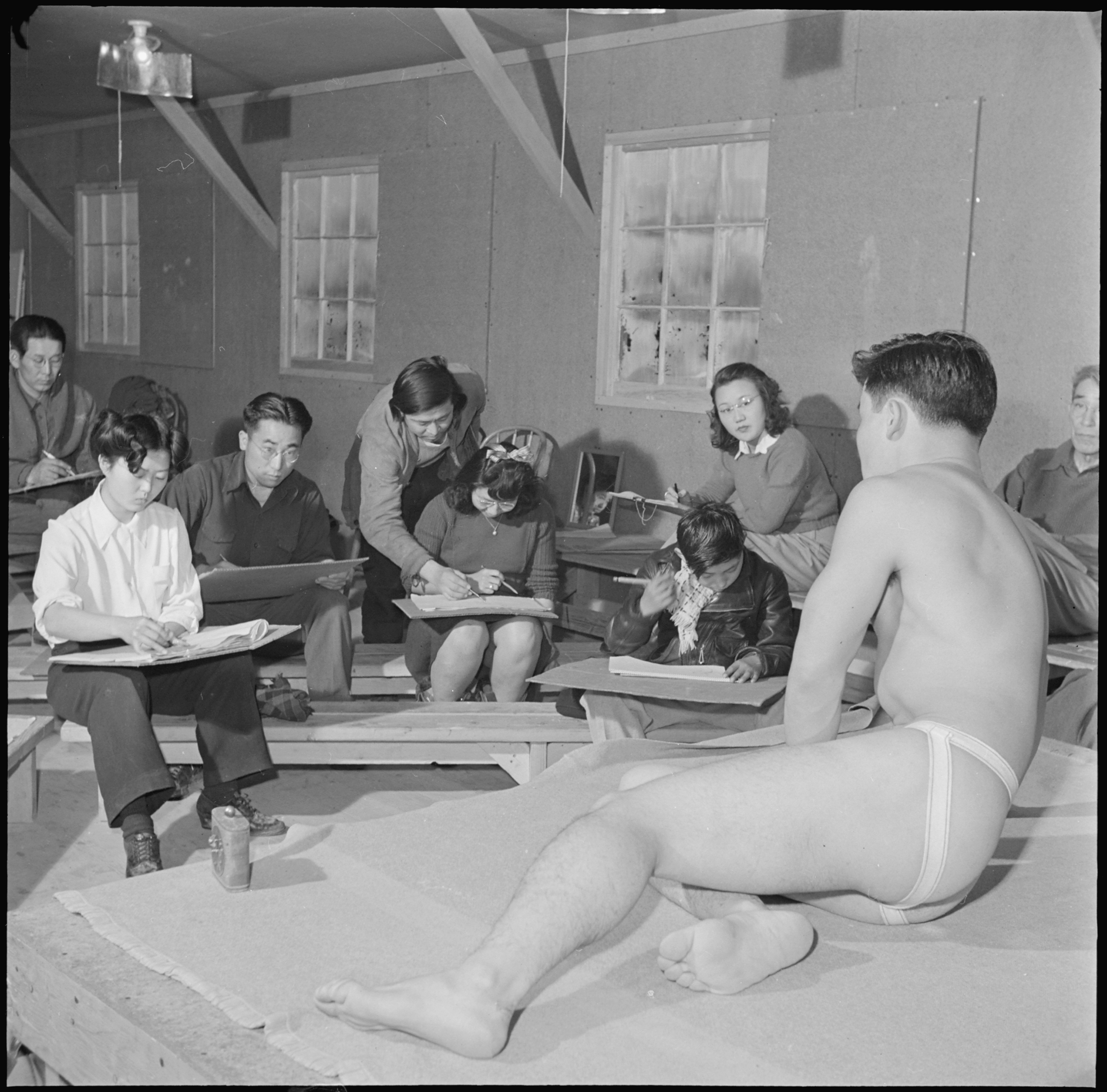 Scope and content: The full caption for this photograph reads: Heart Mountain Relocation Center, Heart Mountain, Wyoming. Benji Okuda [sic, Okubo] instructing a life class, an adult night school group at the Heart Mountain Relocation Center.